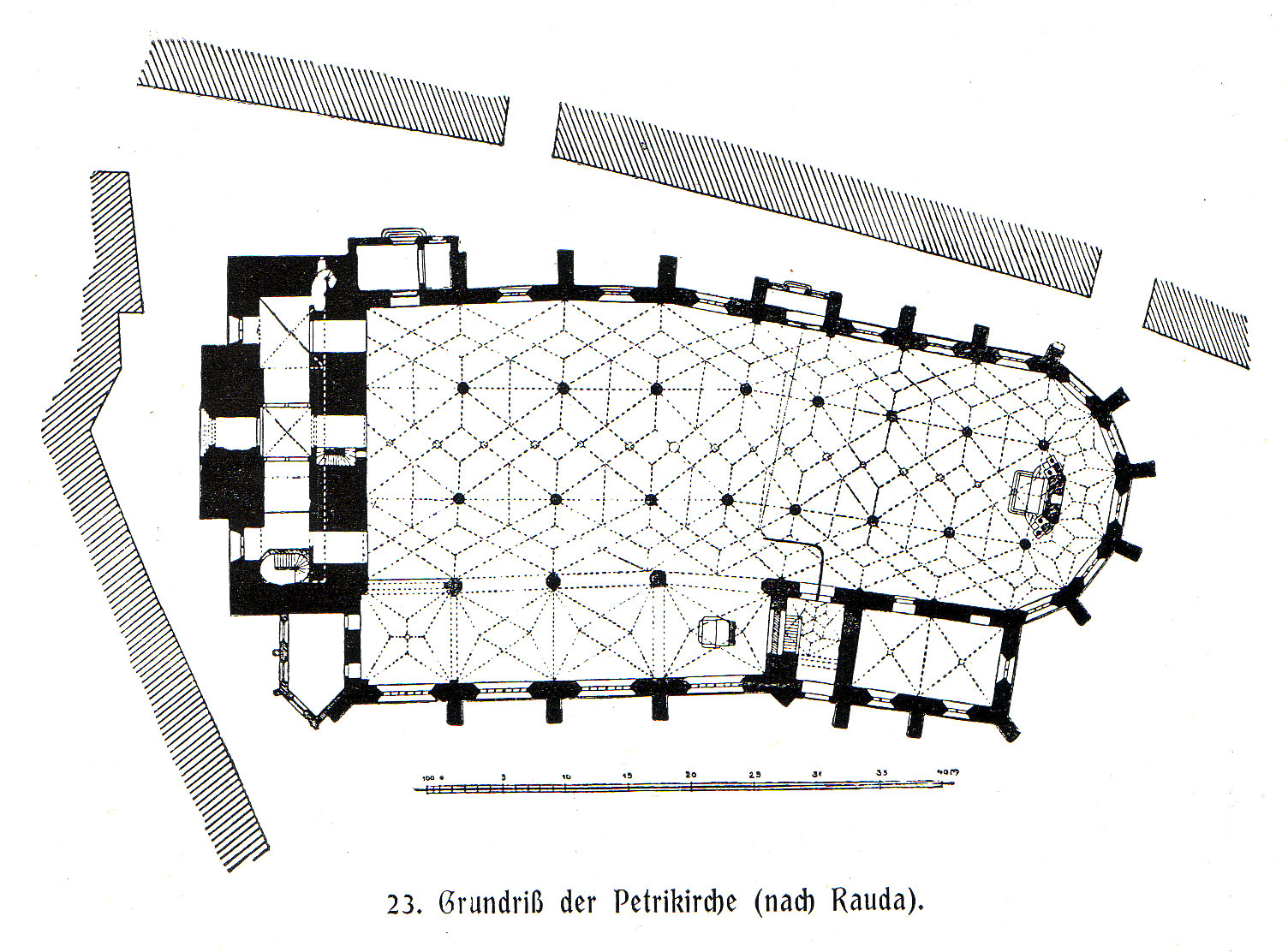 Plan of St. Peter's Church in Bautzen in Saxony, Germany.